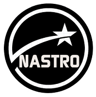 Nastro Logo